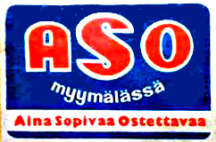 Matchbox cover ad for Finnish grocery chain 1955–1966, later known as A&O, member of the Tuko group.